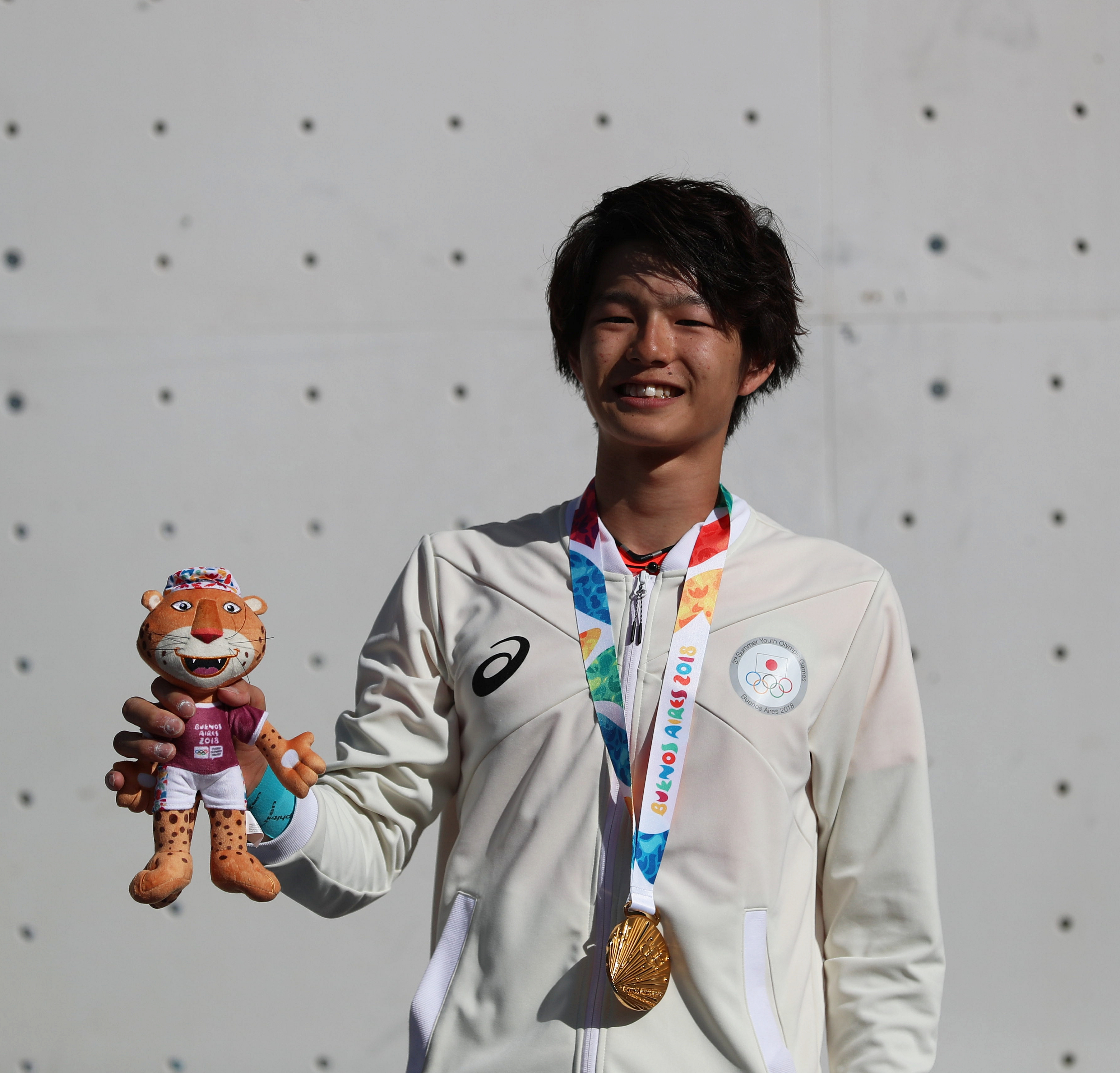 Victory ceremony of the boys' sport climbing at the 2018 Summer Youth Olympics in Buenos Aires on 10 October 2018.